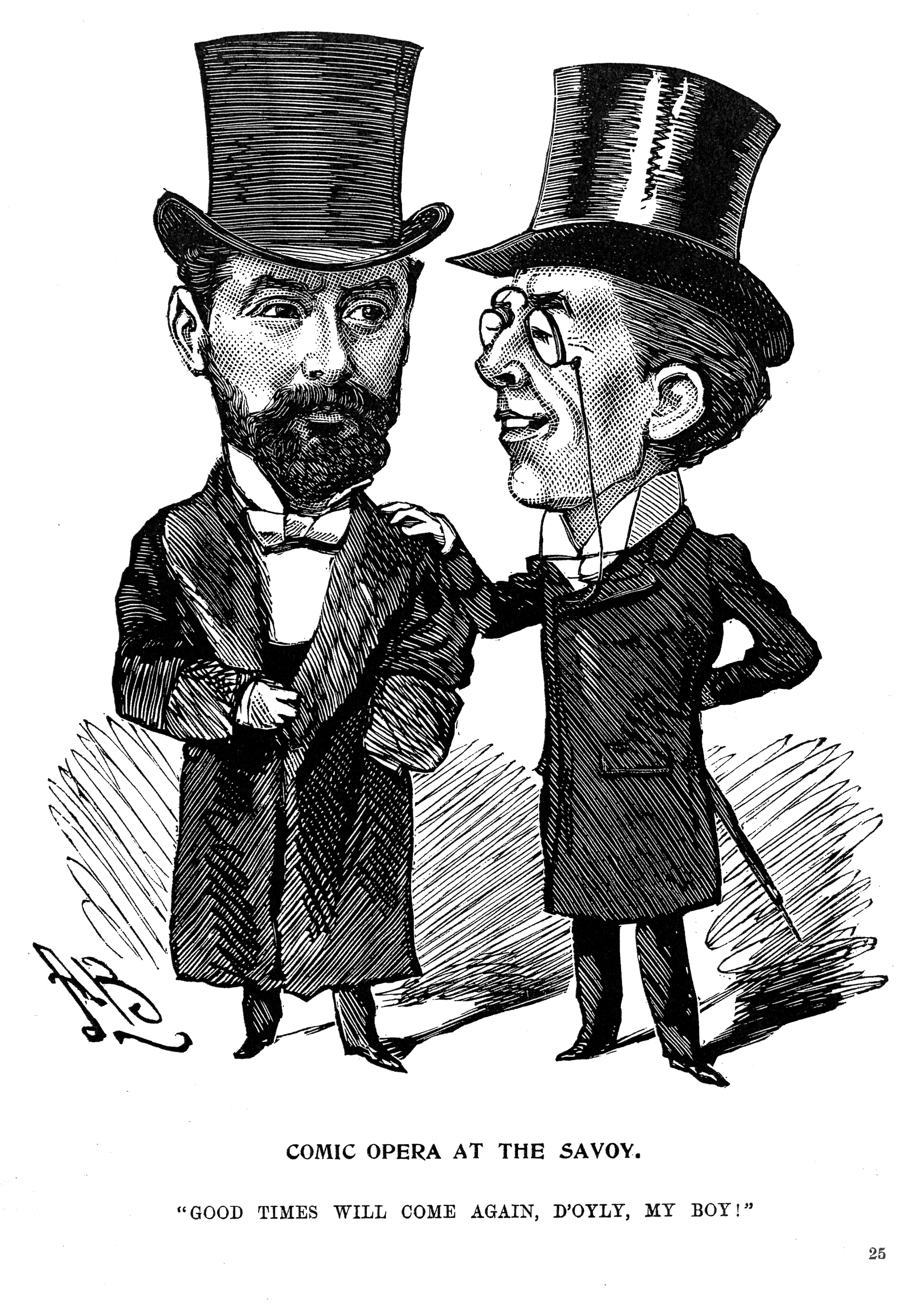 Grossmith attempts to cheer up D'Oyly Carte after the failure of the last Gilbert and Sullivan opera, The Grand Duke